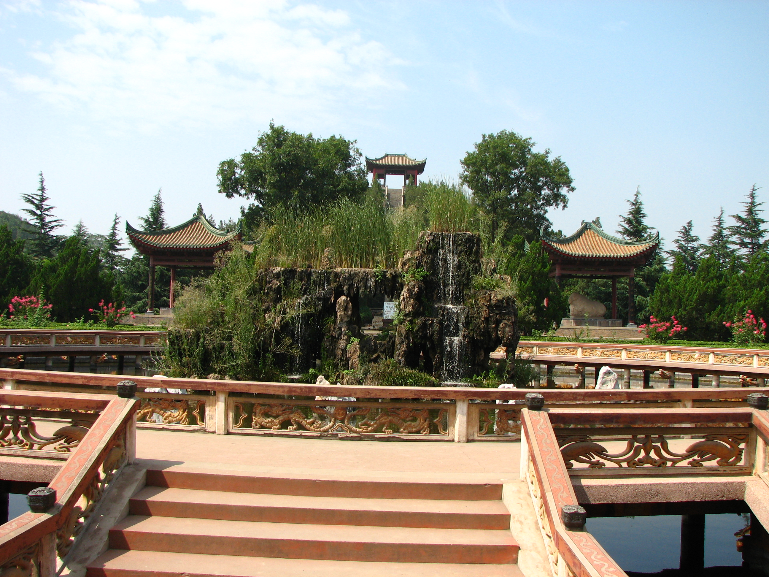 Summary A view of the tombs of the Han Dynasty.